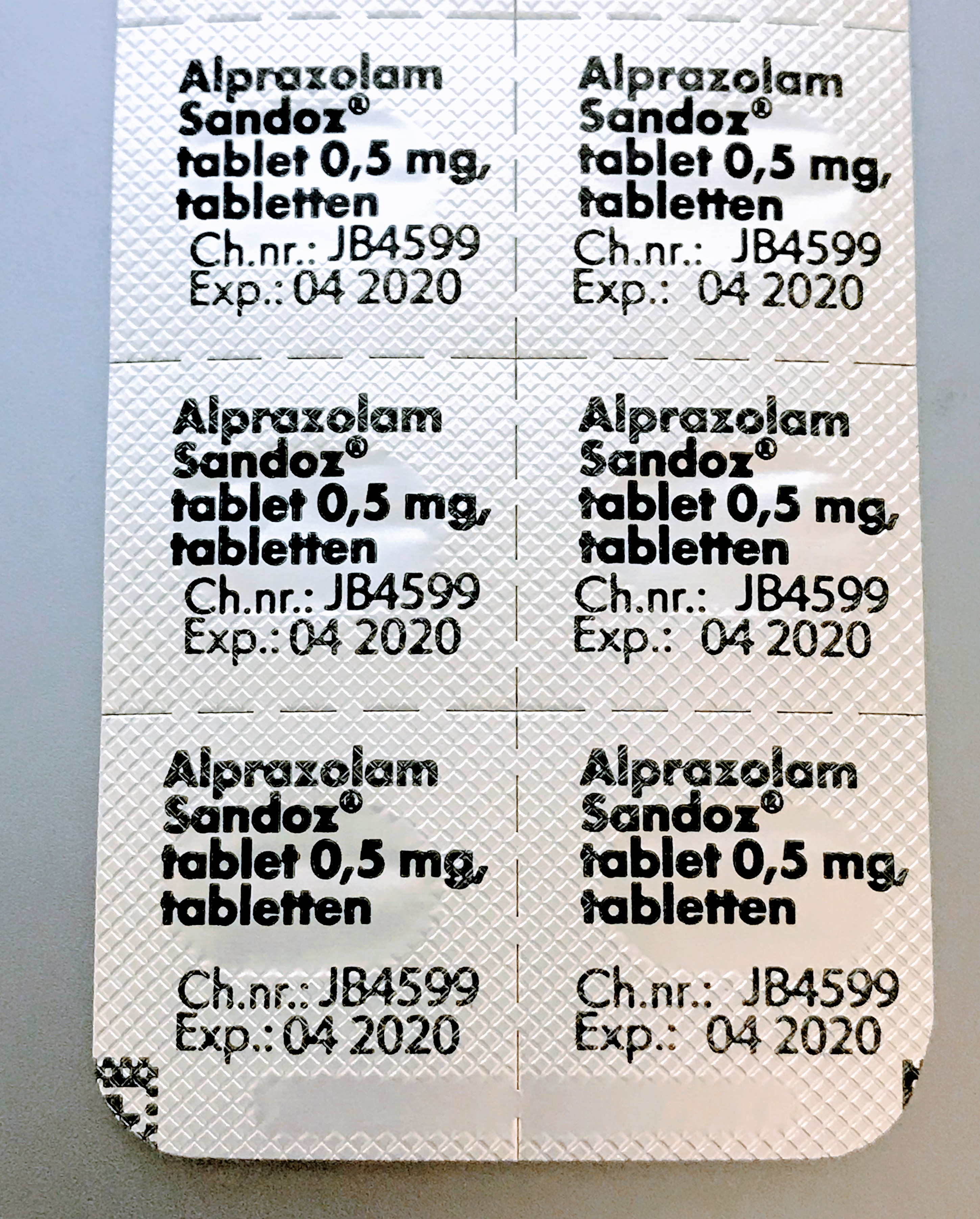 Alprazolam Sandoz Xanax 0.5mg pills